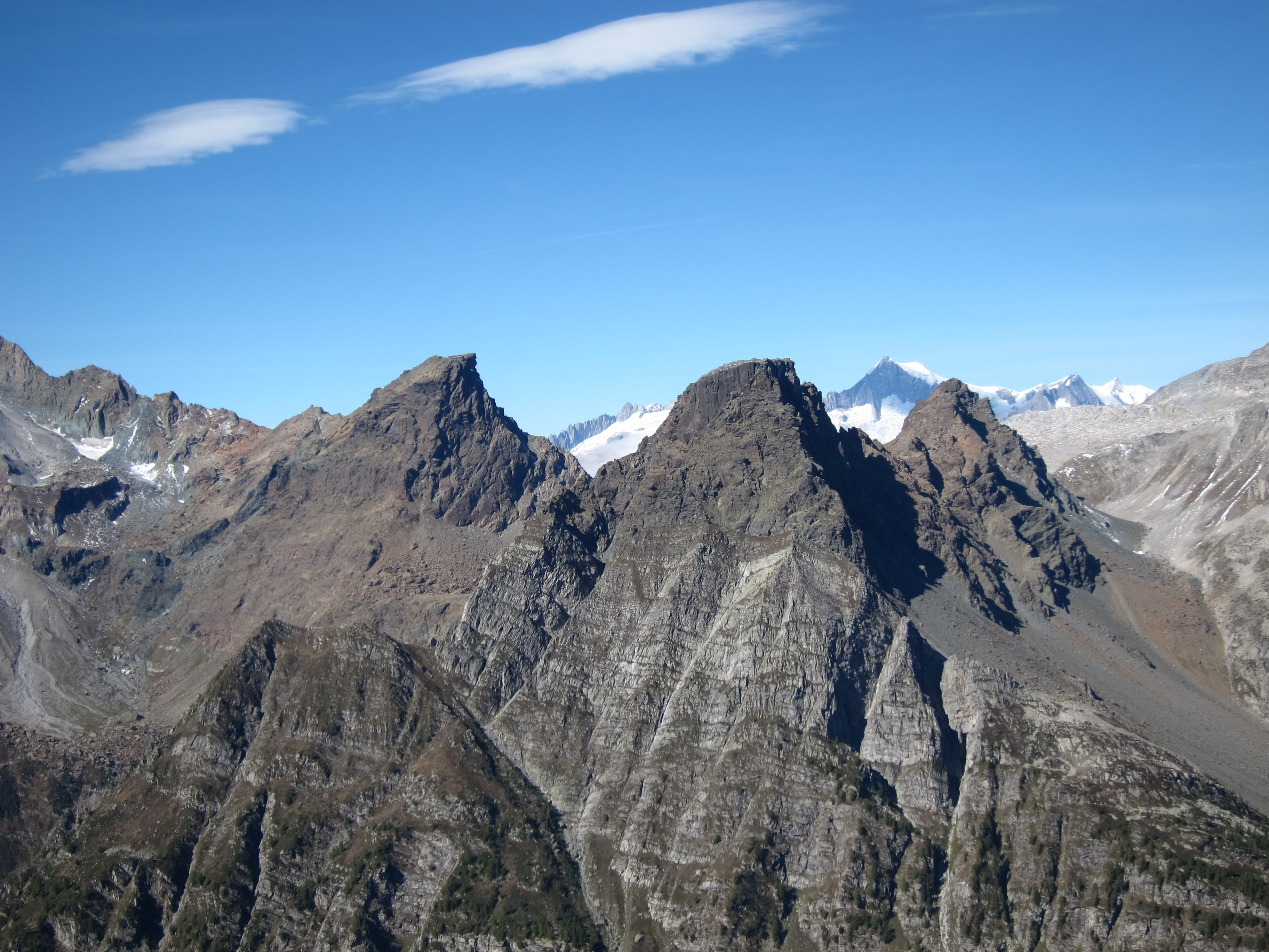 Panoramic view seen from Monte Corbernas. The mountain peaks from the left to the right are:Punta della Rossa (Rothorn) 2888 m, Pizzo Crampiolo sud 2766 m, Grampielhorn 2764 m. The valley is in Baceno municipality, VB, region Piedmont, in Italy. Taken on the 3rd of October 2018. 2018-10-03